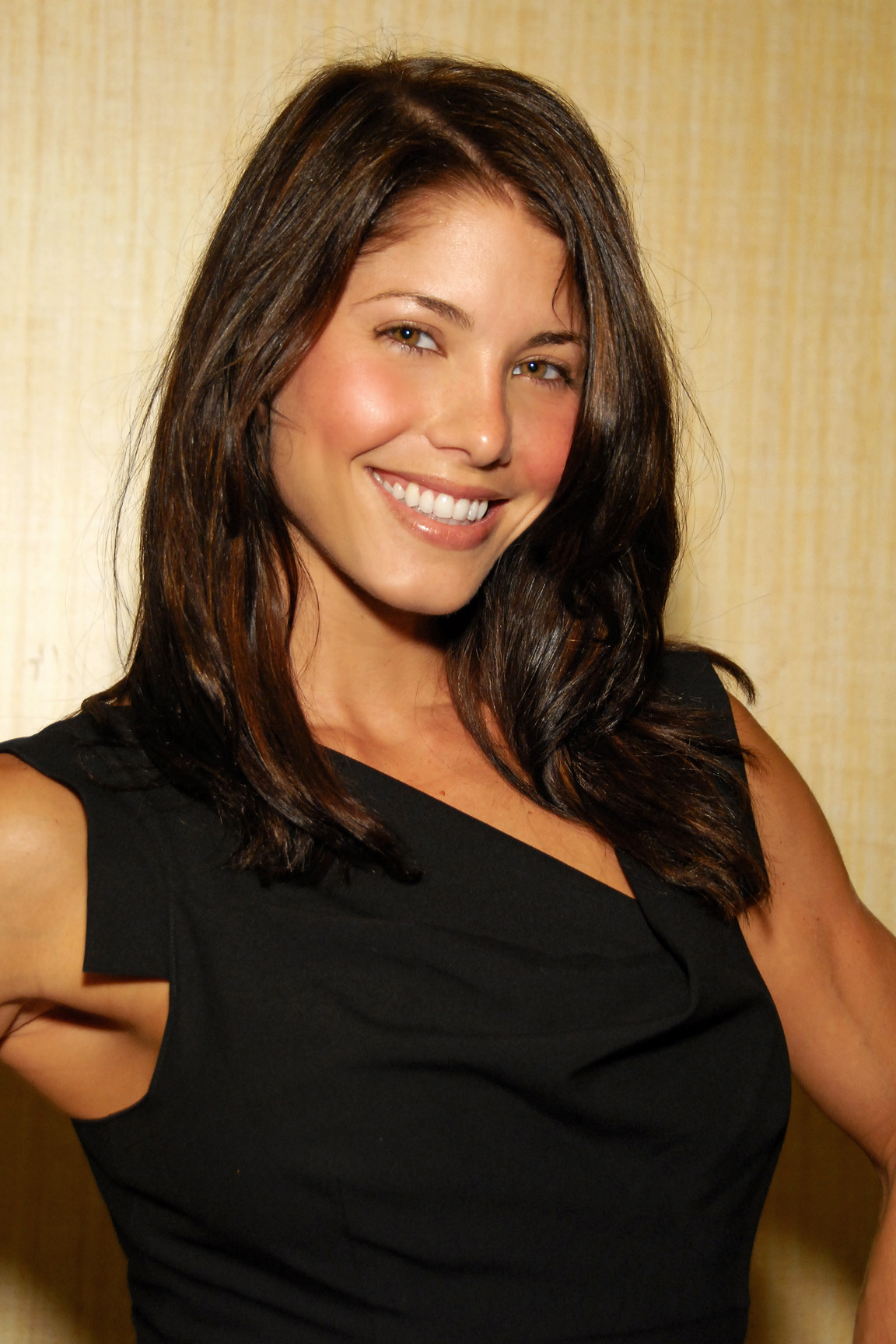 Teri Harrison, Los Angeles, CA on October 1, 2011 - Photo by Glenn Francis of